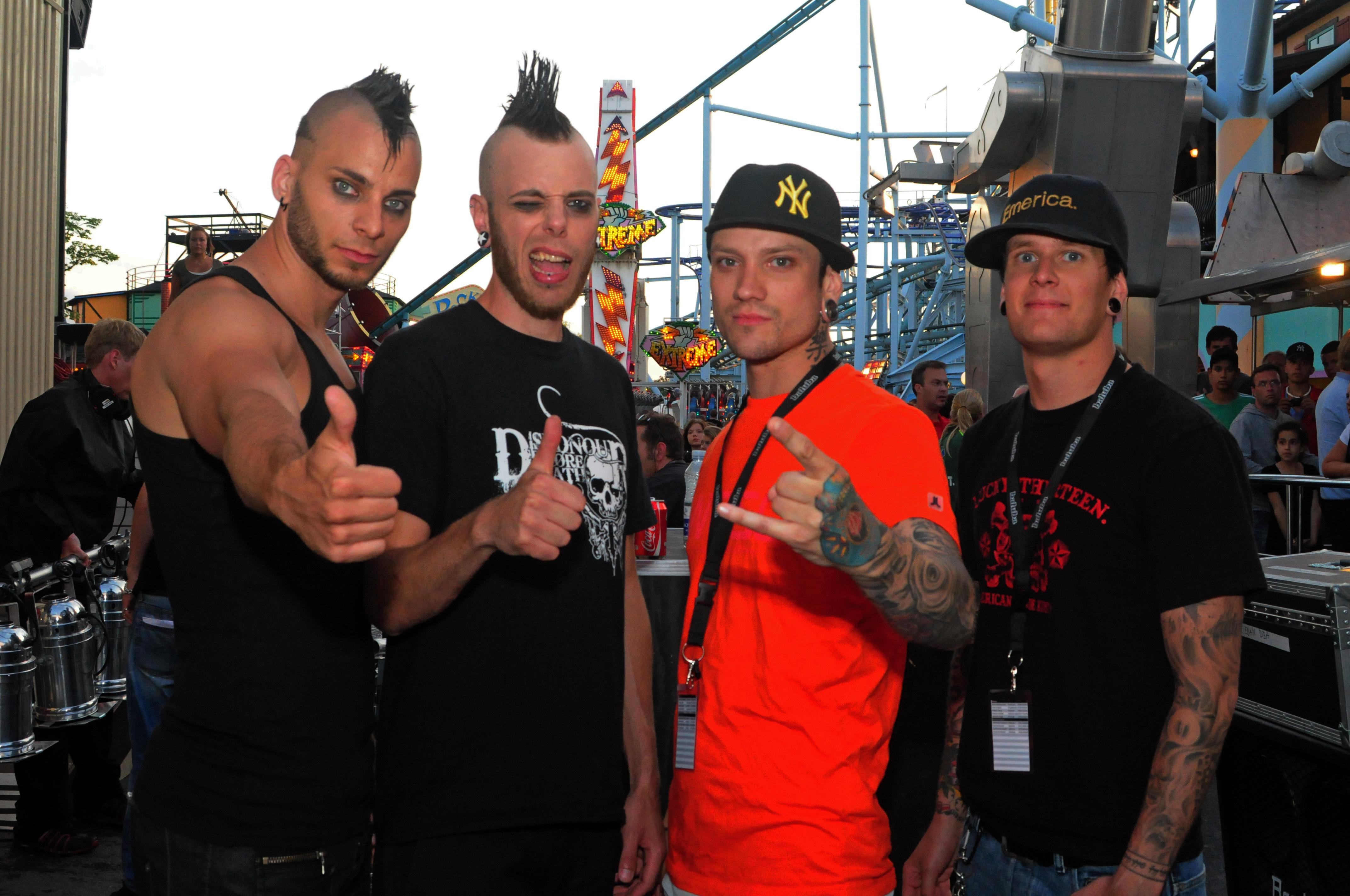 Dead By April at Sommarkrysset 2009